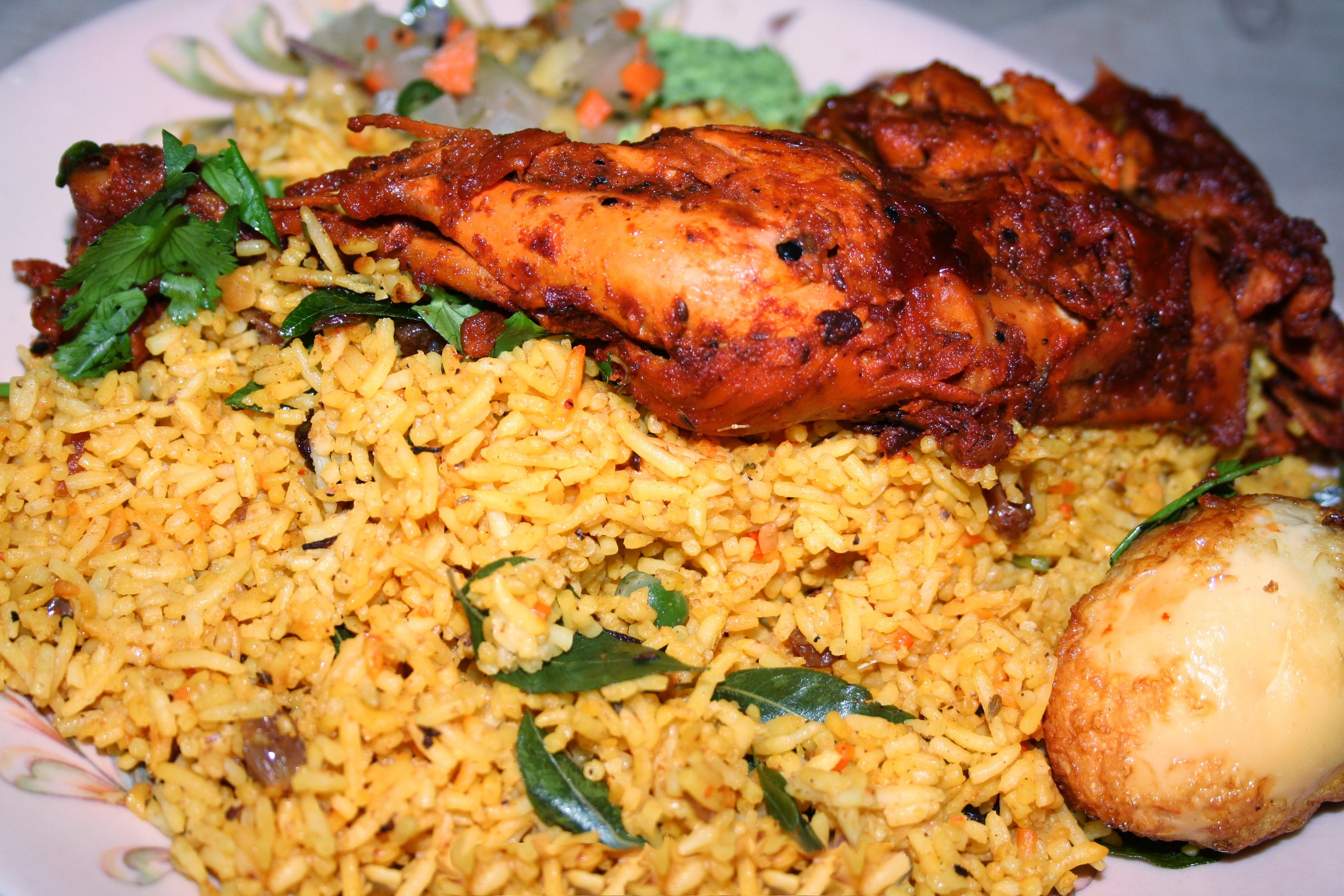 Description: Sri Lankan Chicken Biryani